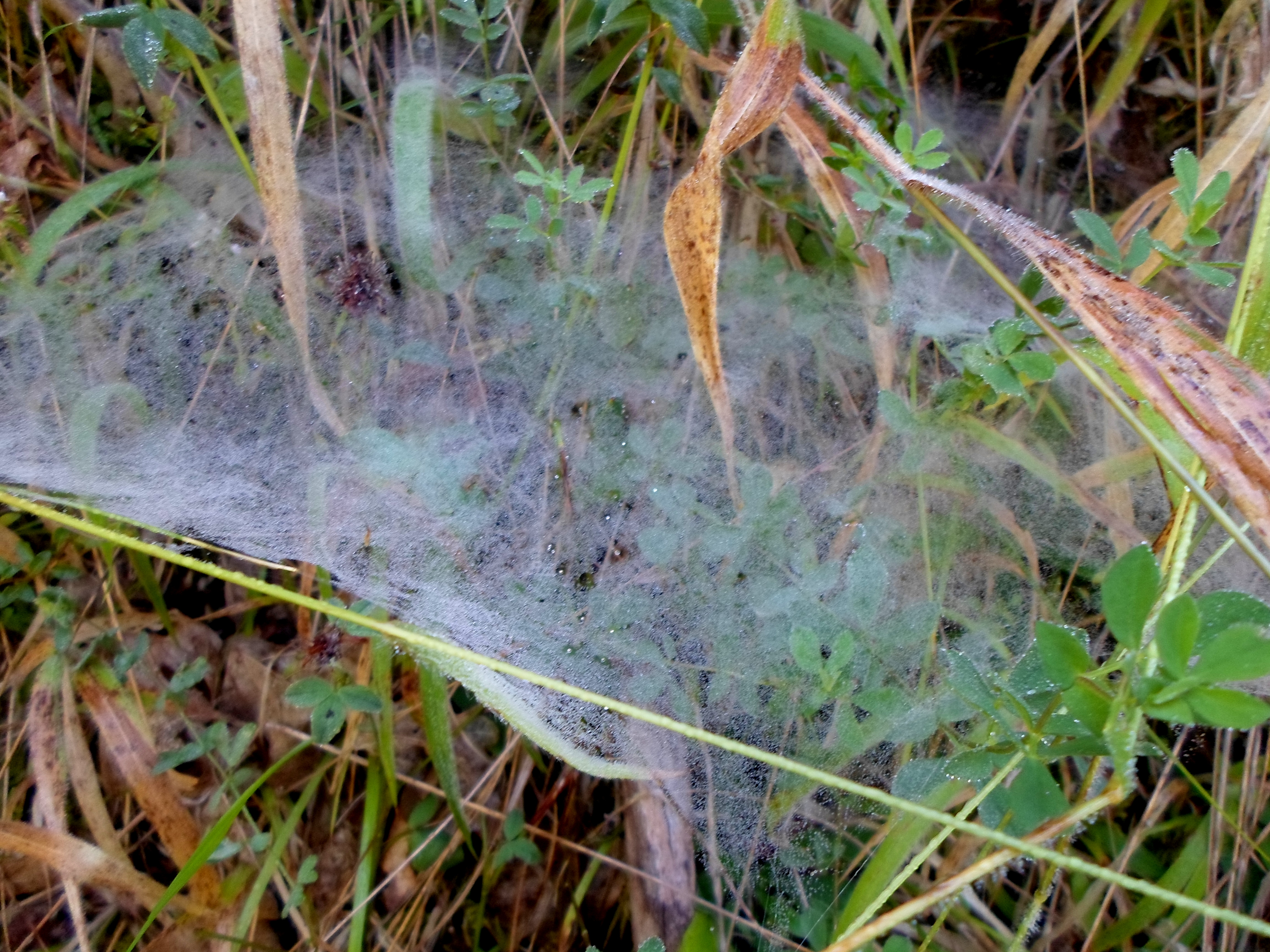 This image was uploaded as part of Trace of Soul 2016. Gostilje brdo